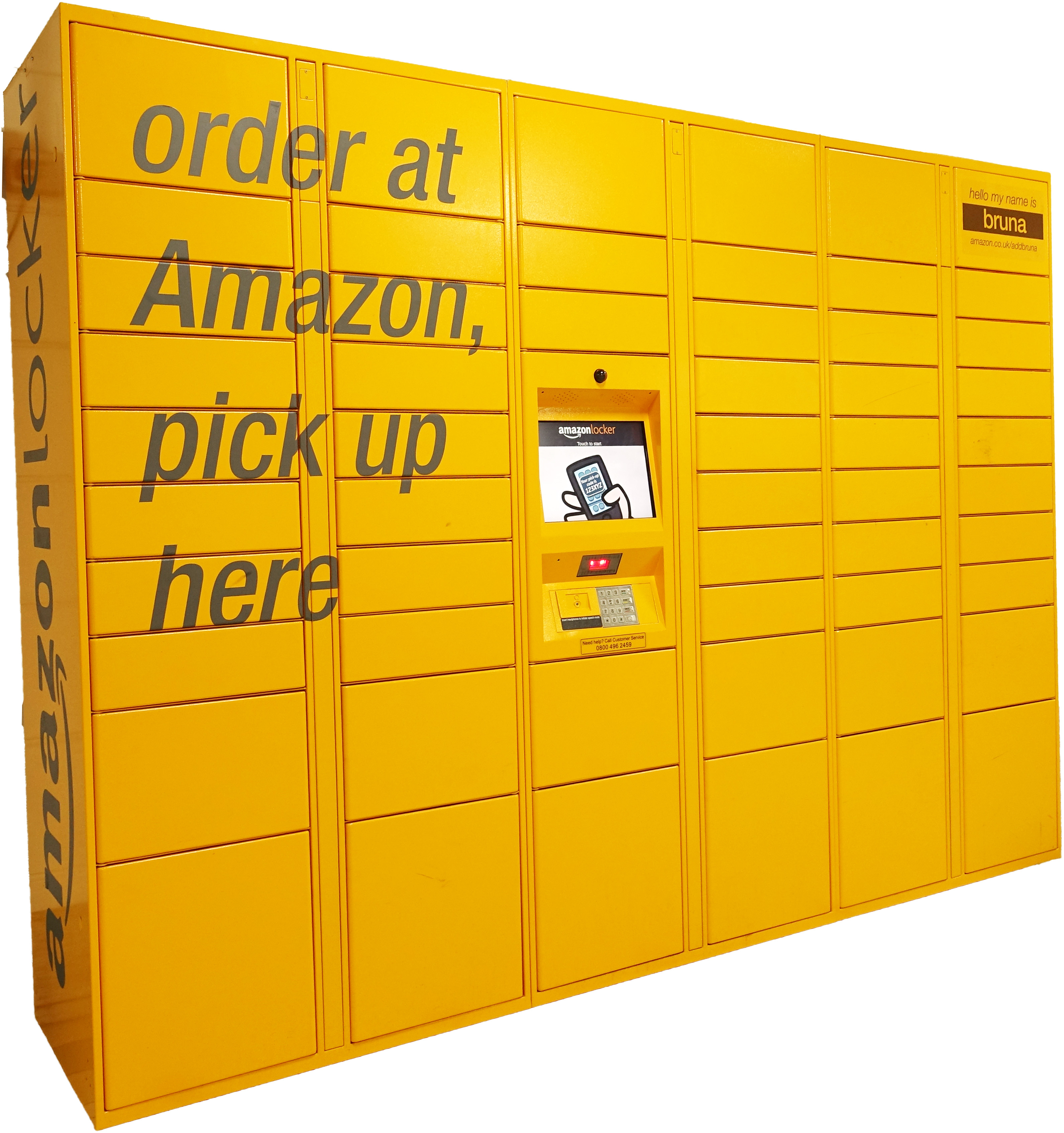 amazon Locker, Bristol.